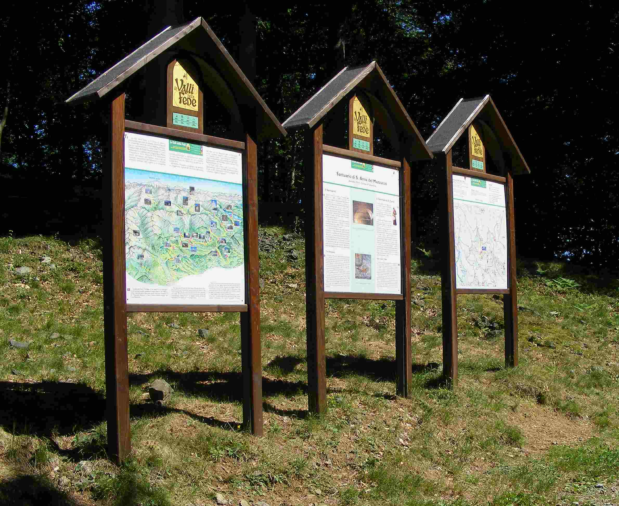 Tabs with historical and artistic notes for Le Valli della Fede track near Mazzucco sanctuary (Camandona, BI, Italy)